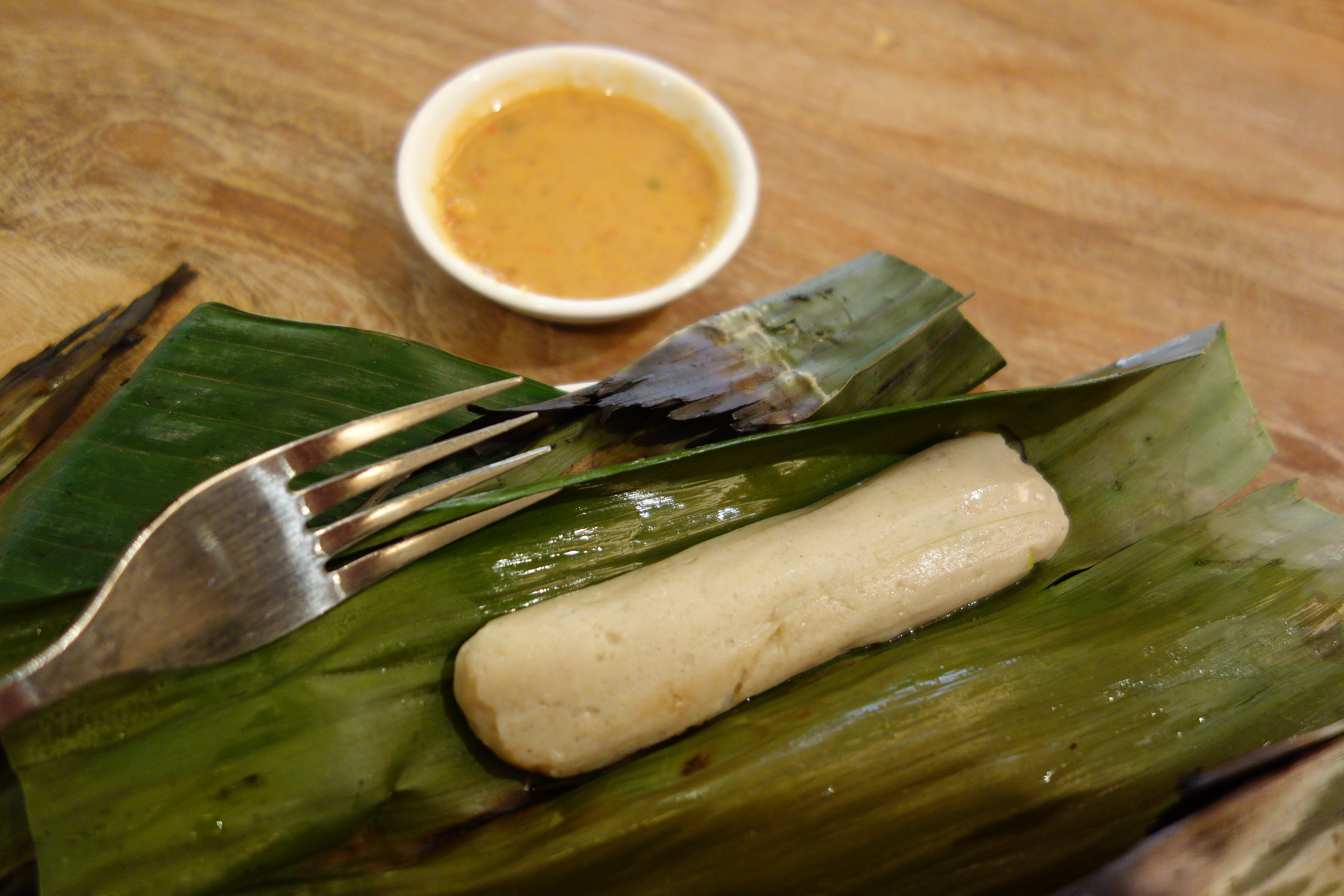 Otak-otak opened in a restaurant in Jakarta